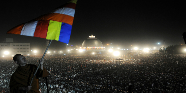 Dikshbhumi on 'Dhamma Chakra Pravartan Din' (Mass Conversion Ceremony Day) and 14 October.